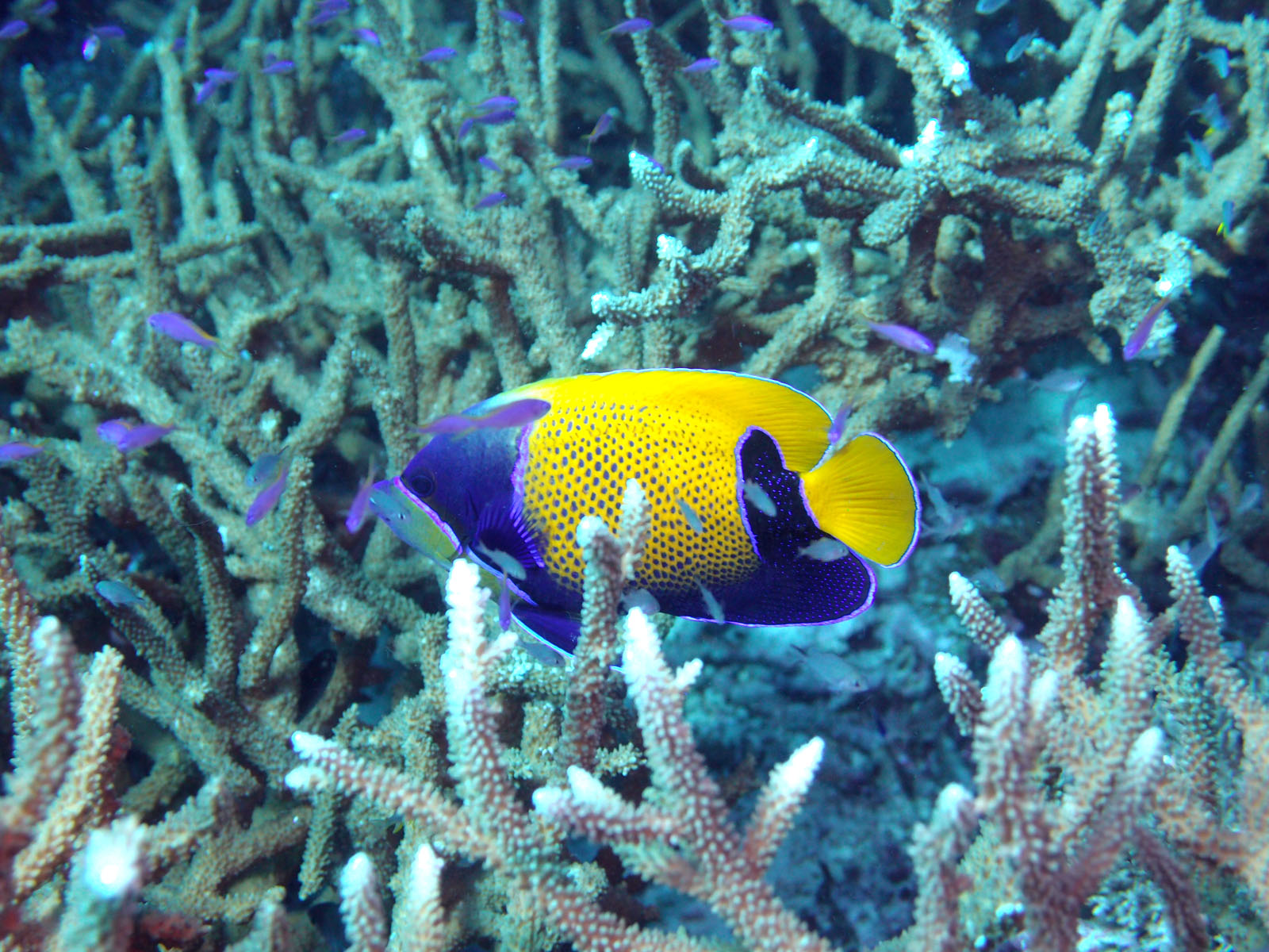 Pomacanthus navarchus in Walindli, Papua New Guinea